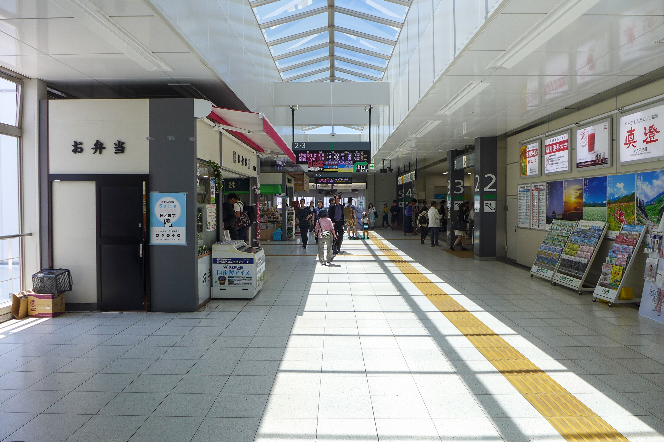 Matsumoto Station Access